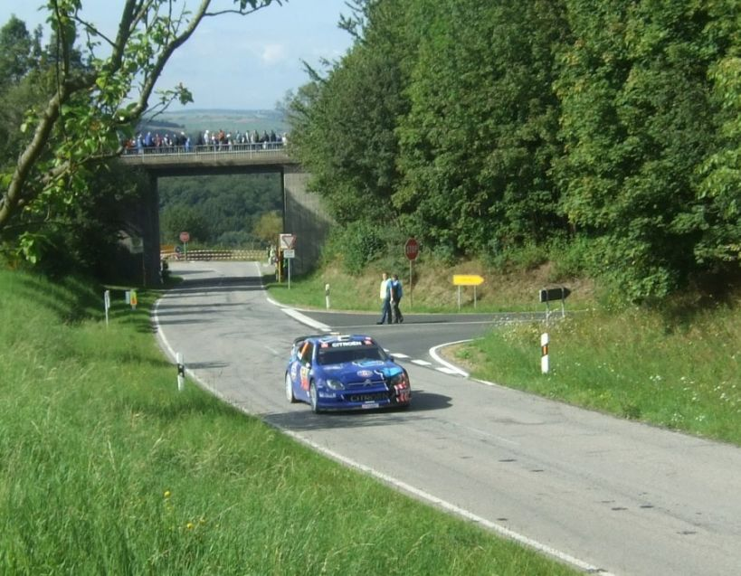 Rallye 2007 near Thomm/Trier